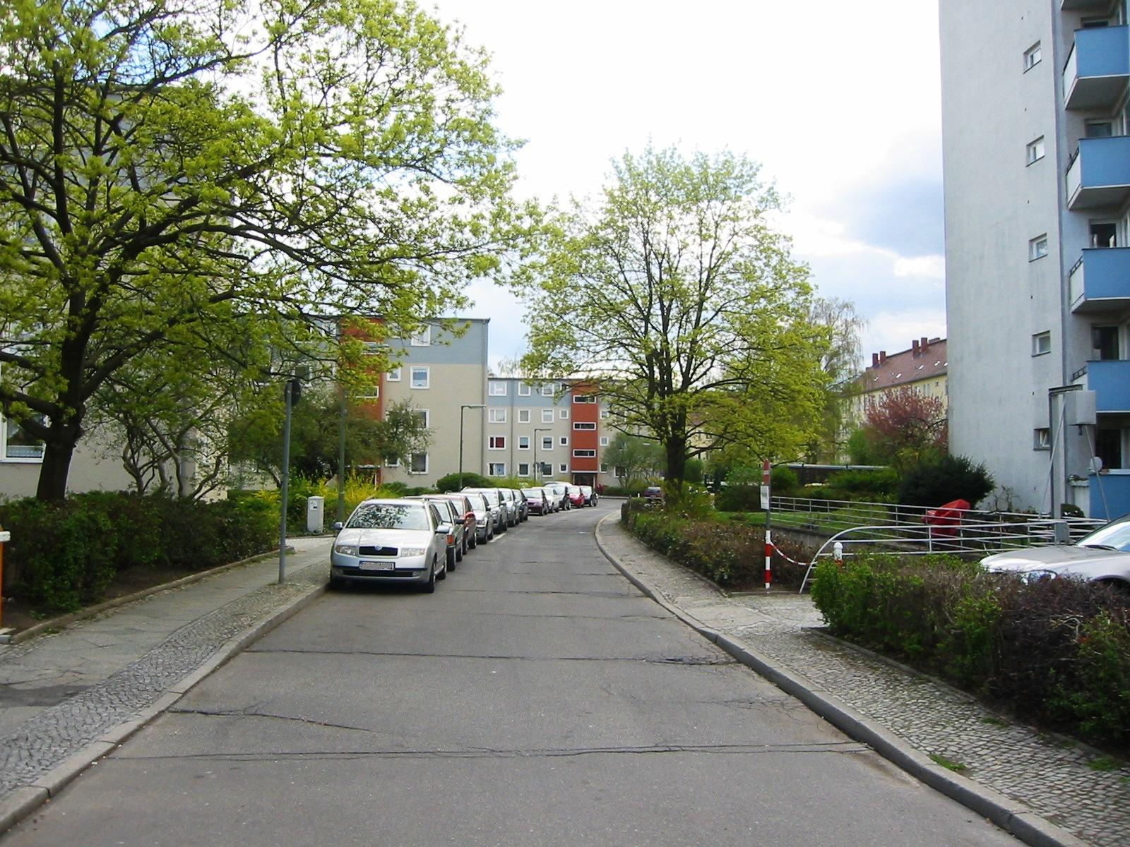 Berlin-Tempelhof Udetzeile